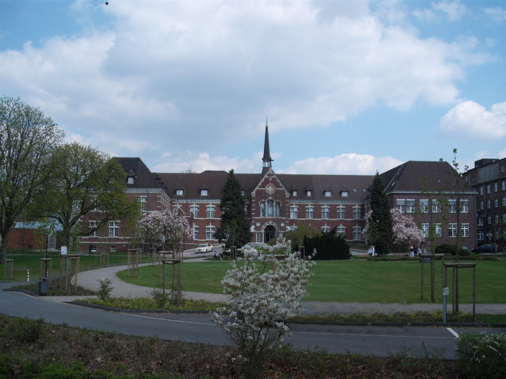 Johanniter Hospital in Oberhausen-Sterkrade, Steinbrinkstraße